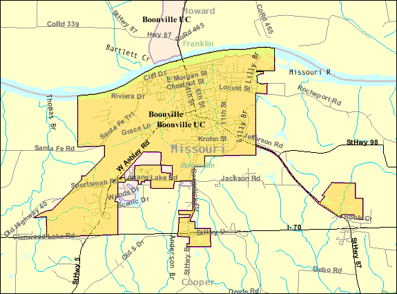 U.S. Census 2000 reference map for Boonville